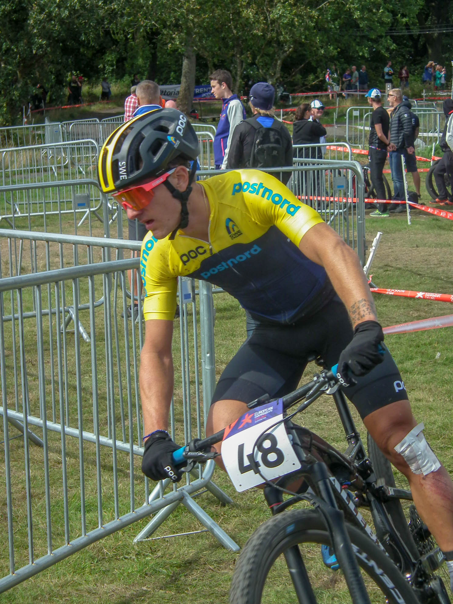 2018 European Mountain Bike Championships